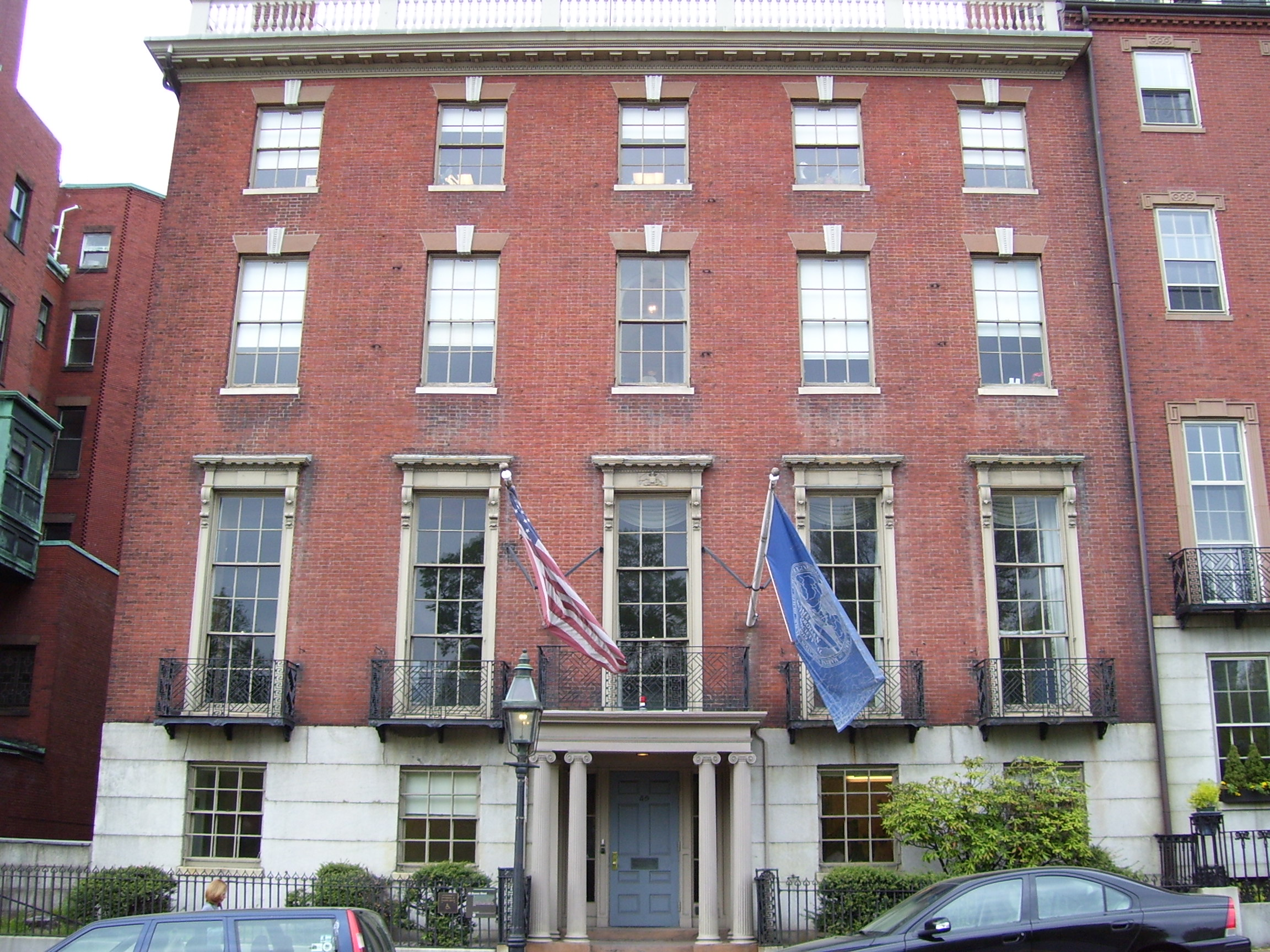 My 2008 photo of the Harrison Gray Otis Building on Beacon Street in Boston, MA.